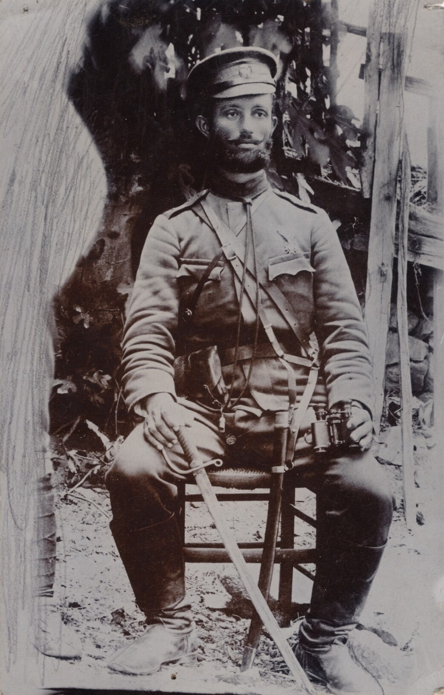 Portrait of K. Olitski from Olista from Macedonian-Adrianopolitan Volunteer Corps